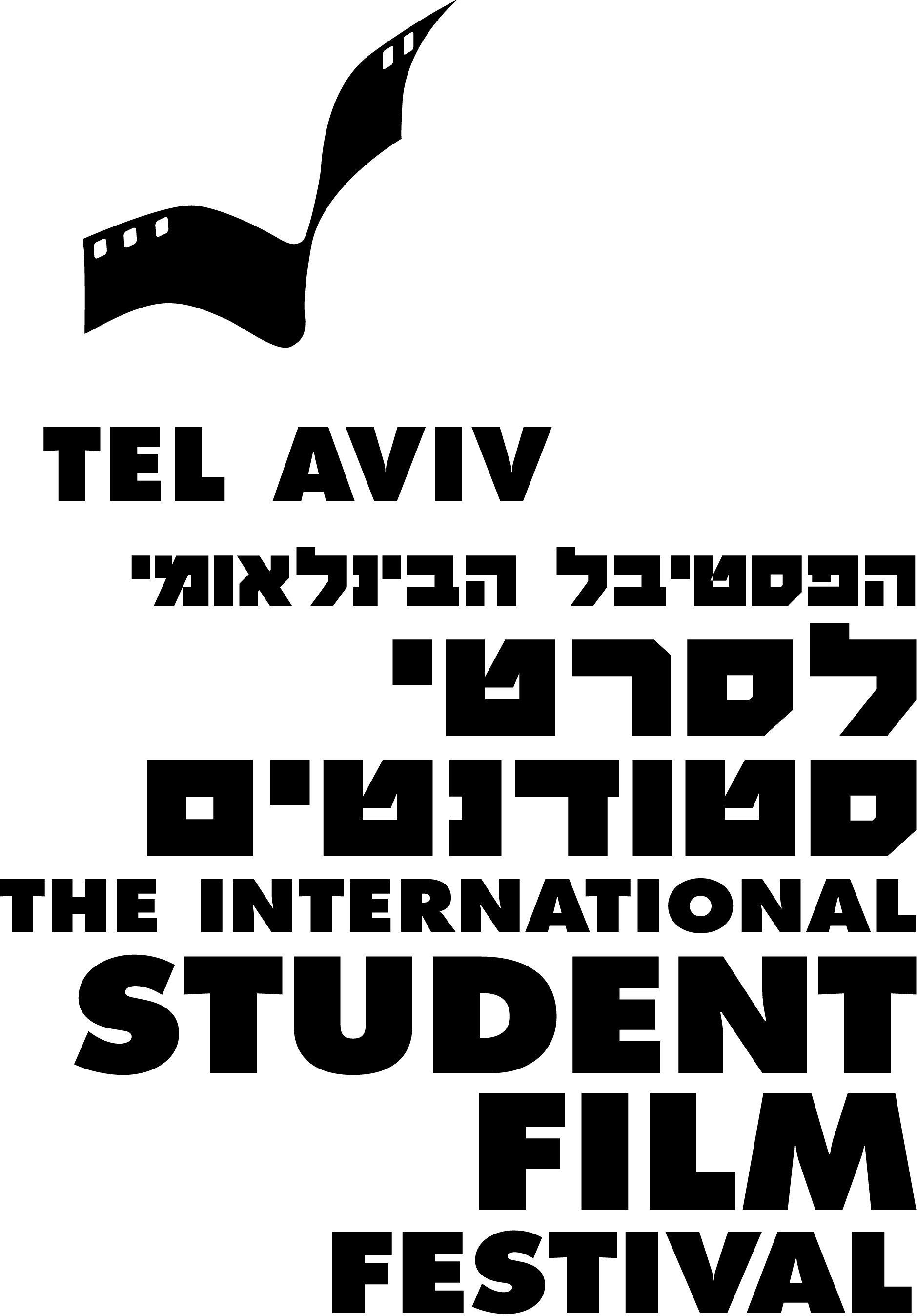 Festival logo